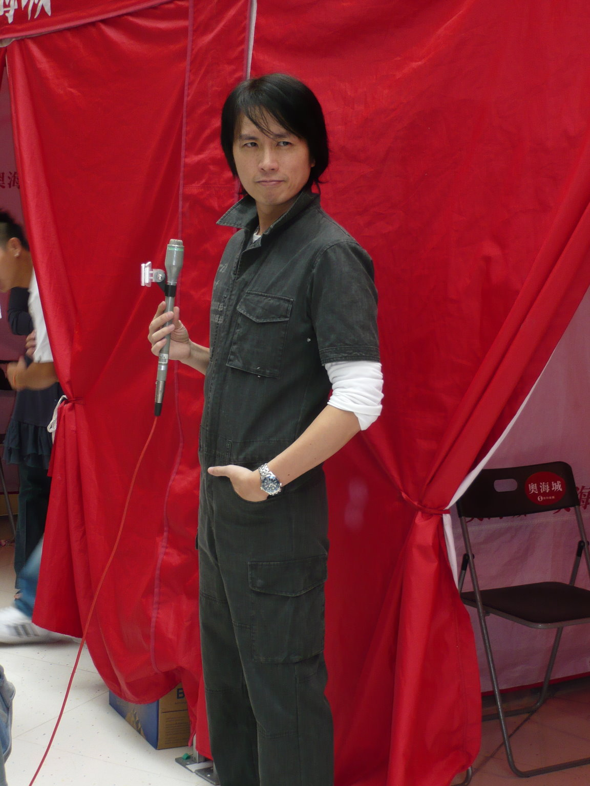 Dayo Wong Chi Wah, Oct. 14, 2007